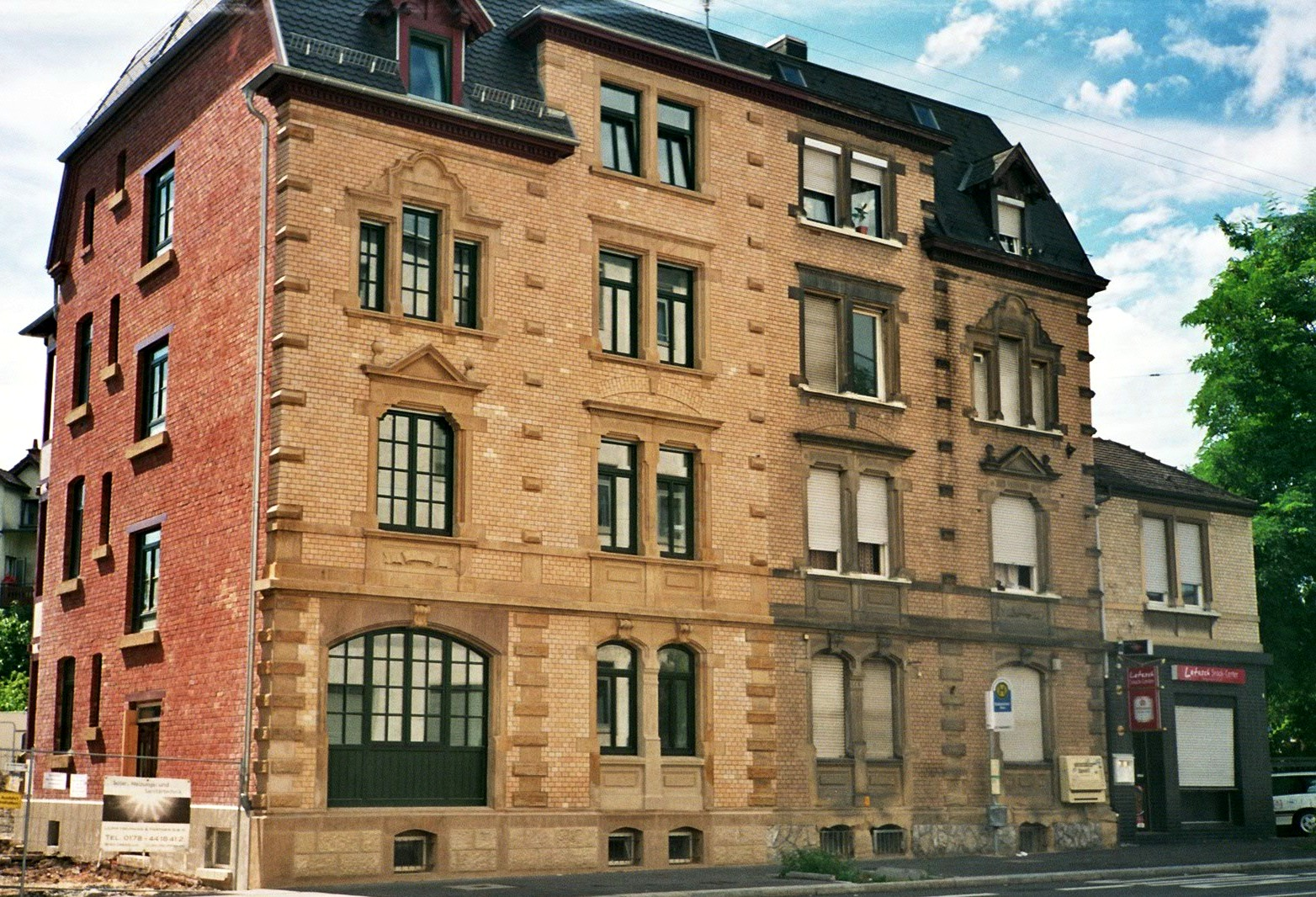 File:Heilbronn-Sontheimer Straße 7 und 9-Detail-3.jpg